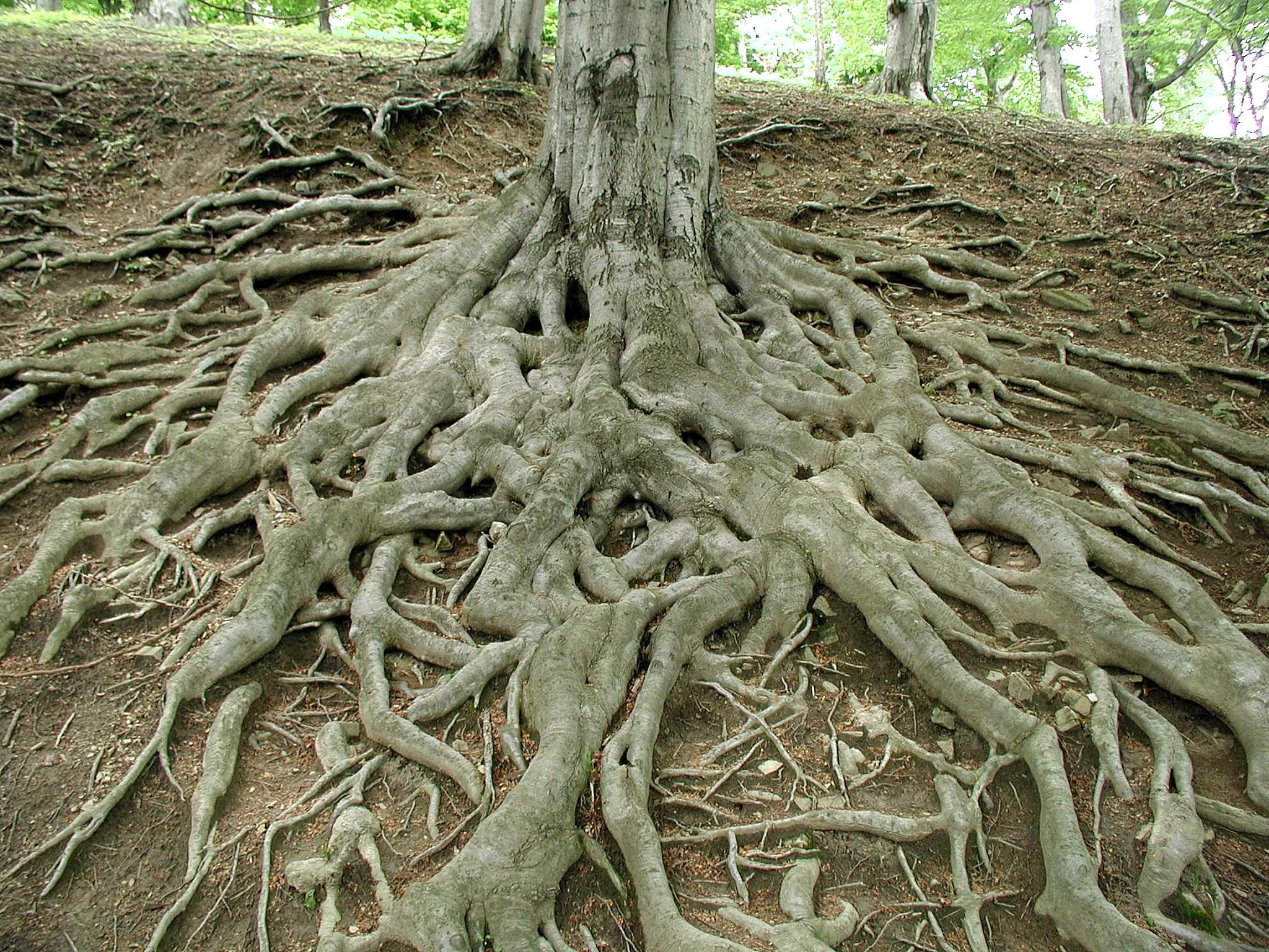 Roots of big old tree Image from Public domain images website